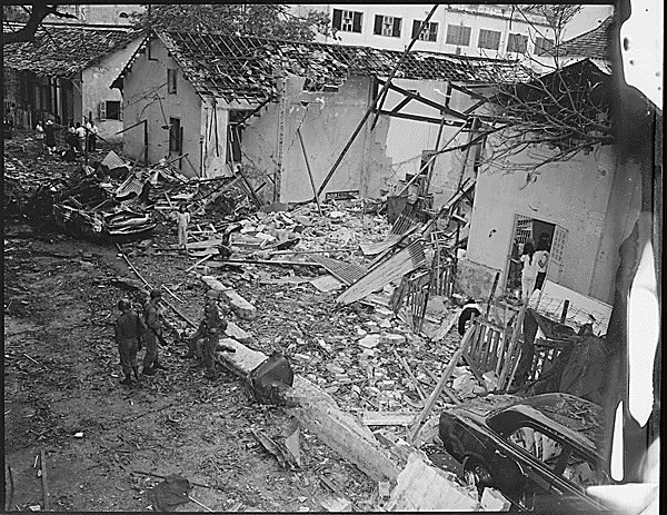 At 5:55 p.m. on December 24, 1964, Viet Cong terrorists exploded a bomb in the garage area underneath the Brinks Hotel in Saigon, South Vietnam. The hotel, housing 125 military and civilian guests, was being used as officers' billets for U.S. Armed Forces in the Republic of Vietnam. Two Americans were killed, and 107 Americans, Vietnamese, and Australians were injured. Small buildings at the rear of the Brinks Hotel were completely destroyed by the force of the blast. Part of the series: Black and White Photographs of U.S. Air Force and Predecessors' Activities, Facilities, and Personnel, Domestic and Foreign, compiled 1930 - 1975, documenting the period 1863 - 1975. Local Identifier 342-AF-100980USAF.